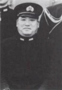 Pd-japan, Japanese production during the person's career. pd-japan